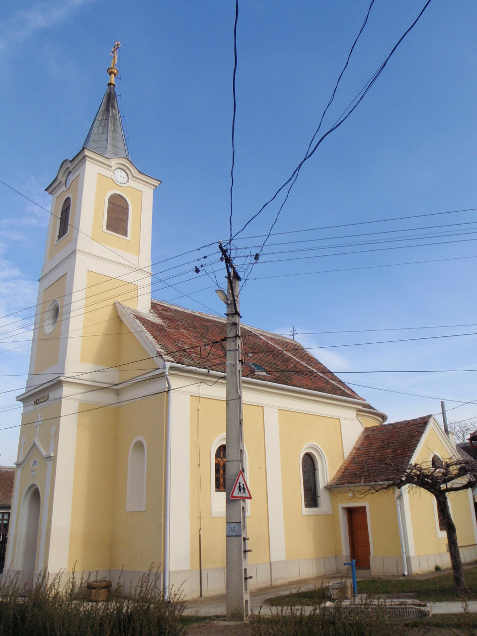 Kirche in Schwabendorf